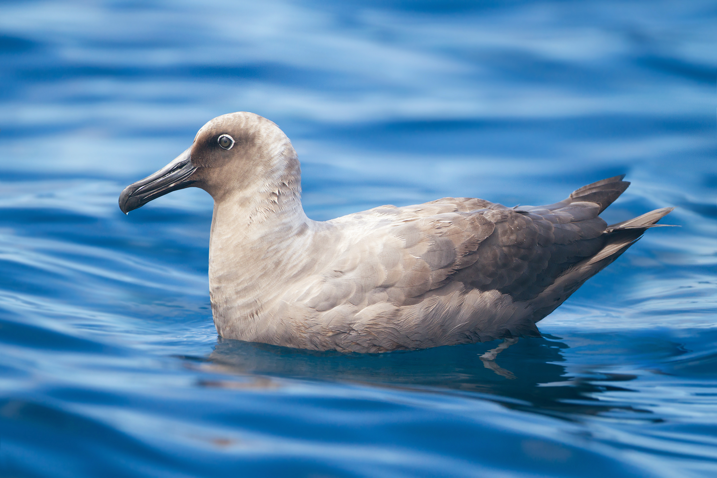 An immature Sooty Albatross (Phoebetria fusca), East of the Tasman Peninsula, Tasmania, Australia